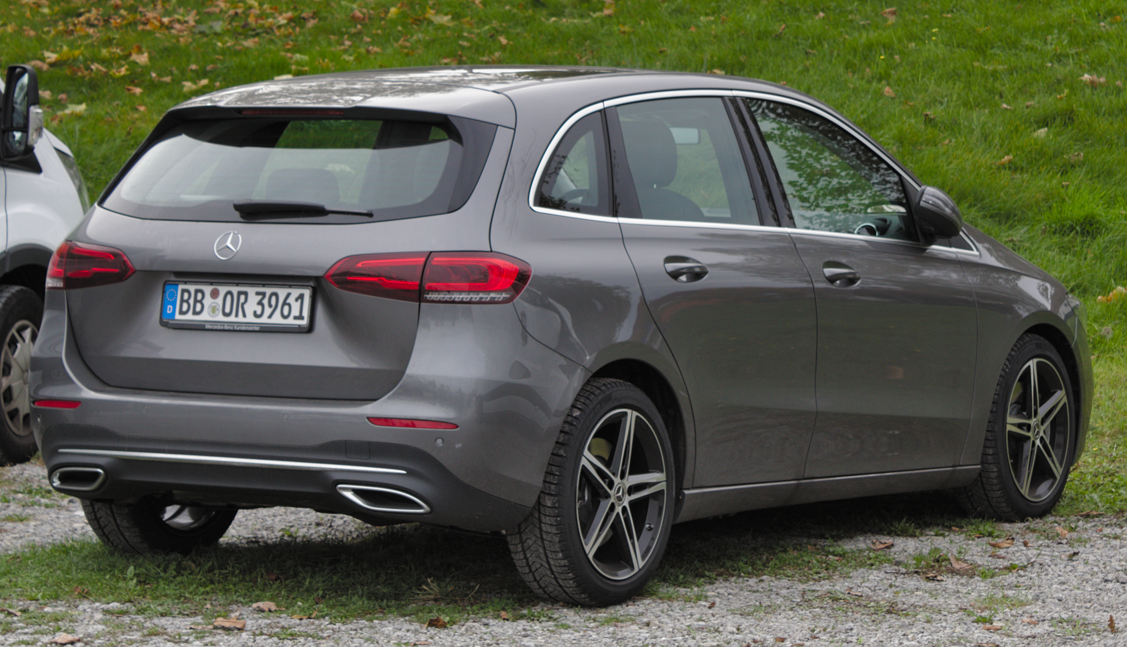 Mercedes-Benz_W247 in Stuttgart-Vaihingen